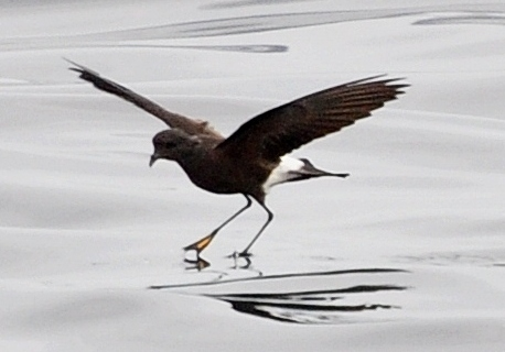 Oct 2011 Karnataka Pelagic Udupi, Oct off Malpe coast shot around 50kms from coast. Shows the Yellow webbet feet of the Petrel.